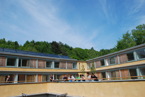 Students on the roof terrace of the Wales Institute for Sustainable Education